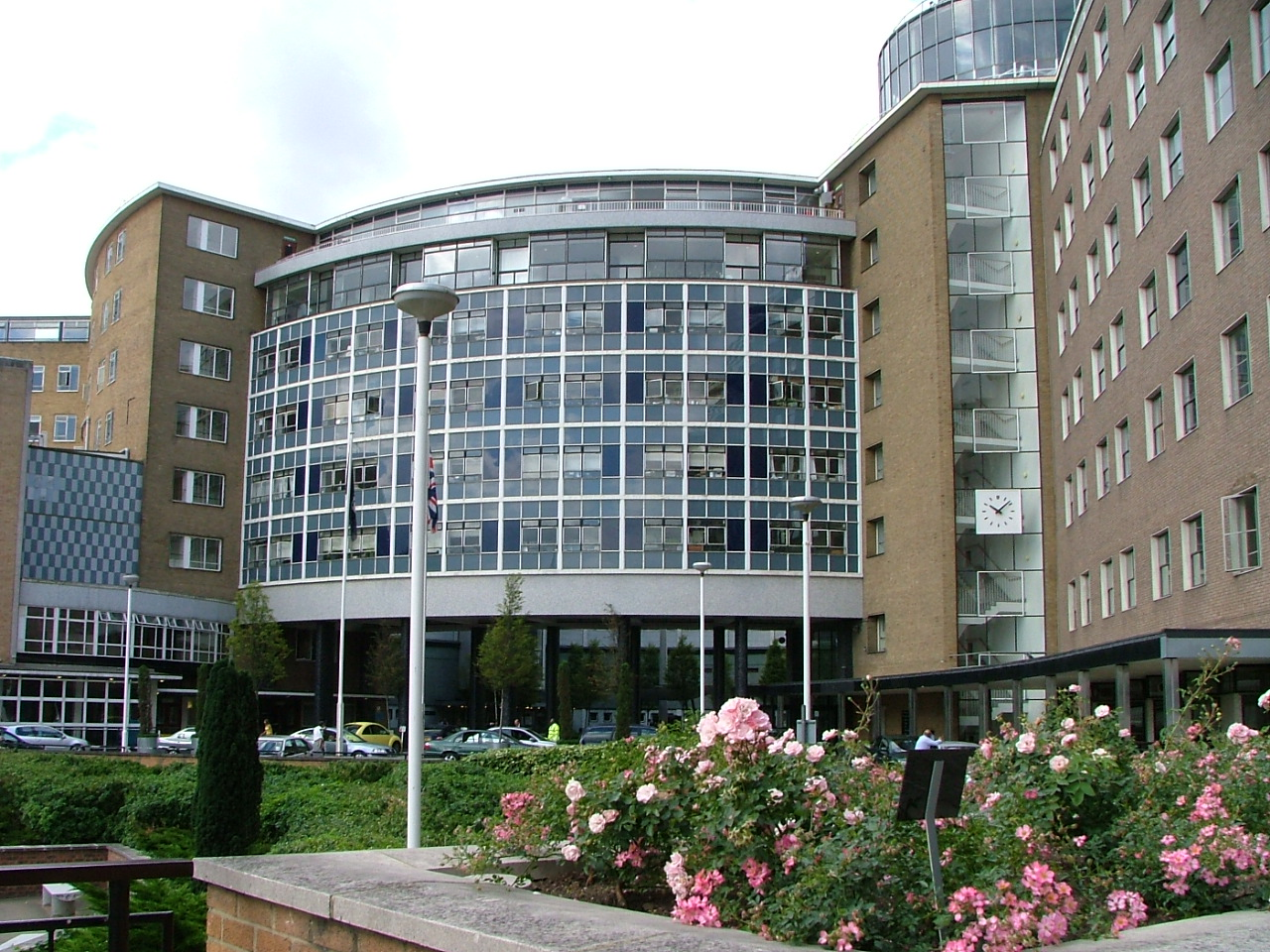 This is a photo taken by me of the BBC Television Centre in West London. This was taken from the front of the building on a platform overlooking Wood Lane. This was one of two photo opportunities given on the tour of the complex.